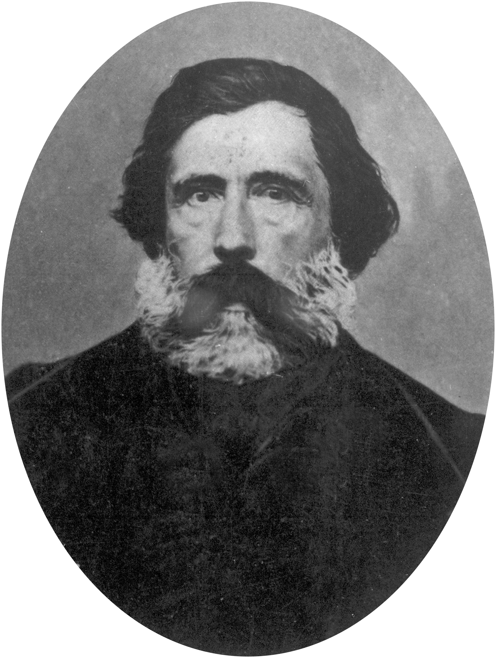 Venancio Flores, President of Uruguay, c.1865